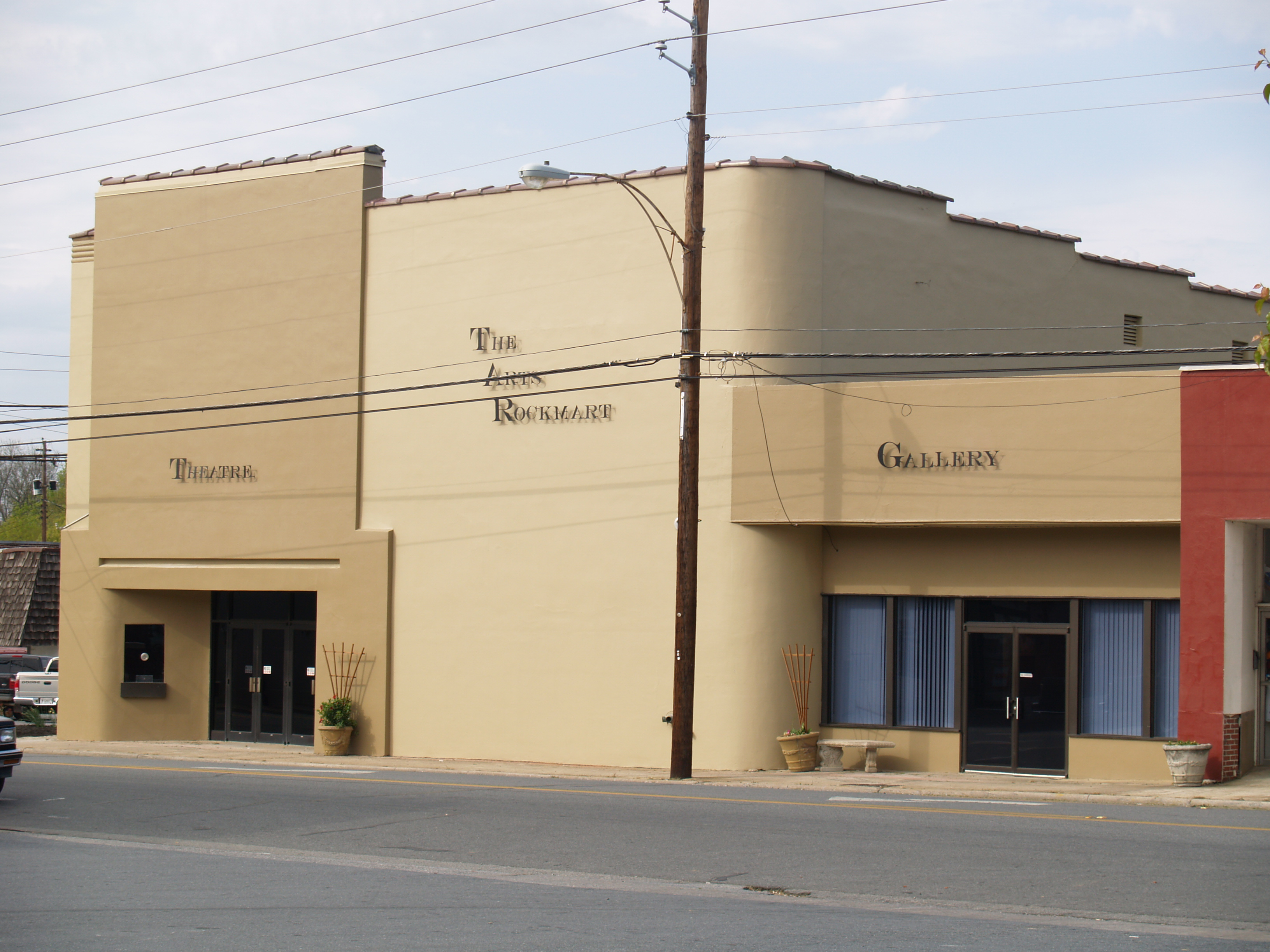 Rockmart Art Center Theatre. The theatre is located in Rockmart, Georgia on East Elm St. between South Marble St. and Slate St.